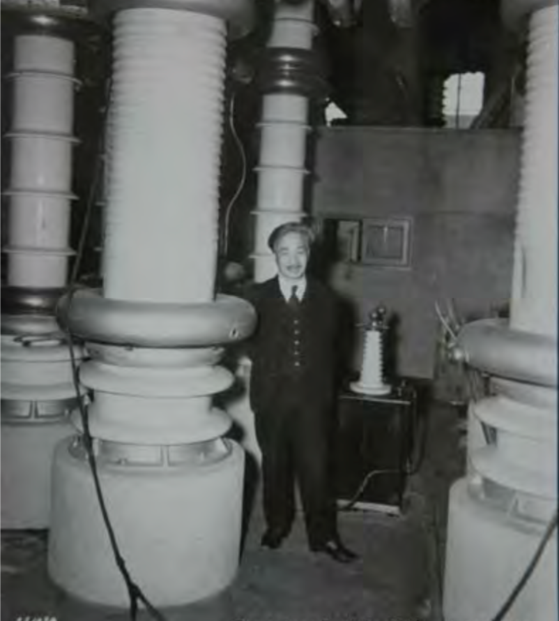 Cockcroft-Walton linear particle accelerator at Kyoto University